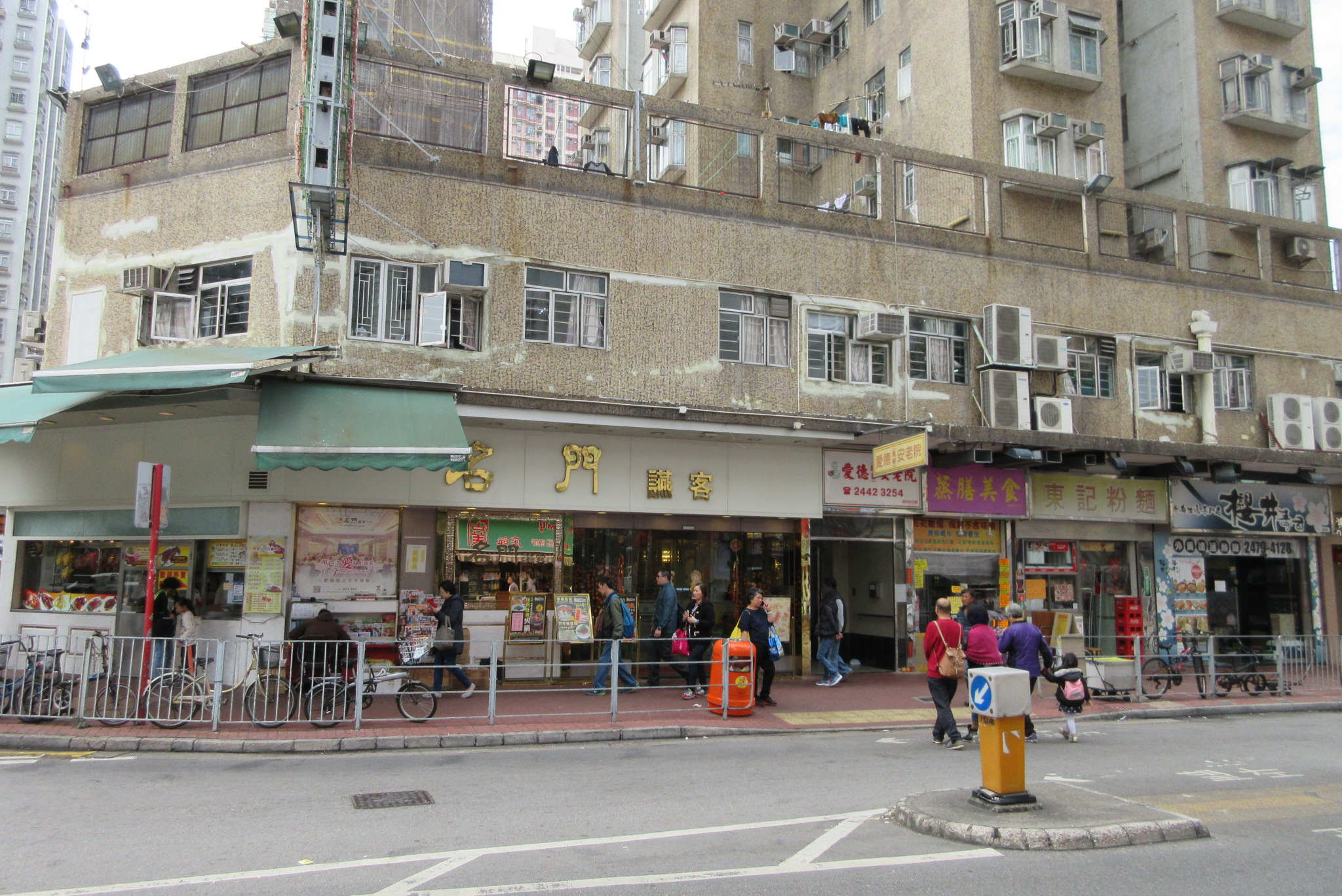 HK YL 元朗 Yuen Long 鳳琴街 Fung Kam Street Fortune Centre facade Feb 2017